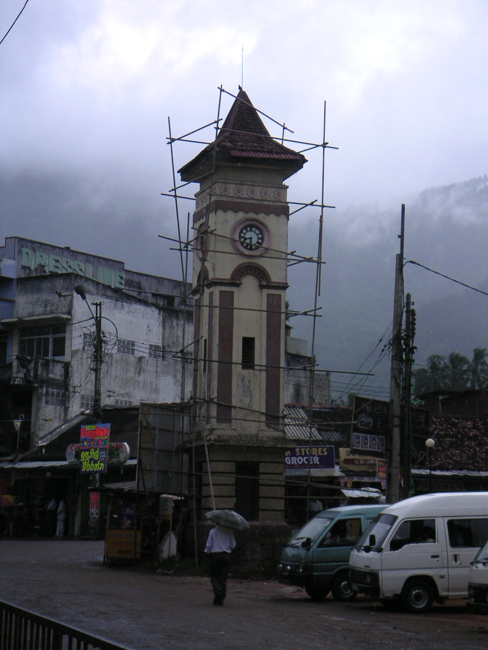 This is the Matale Clock Tower Which is located in the heart of the City Matale, Sri Lanka. Photo: Soman